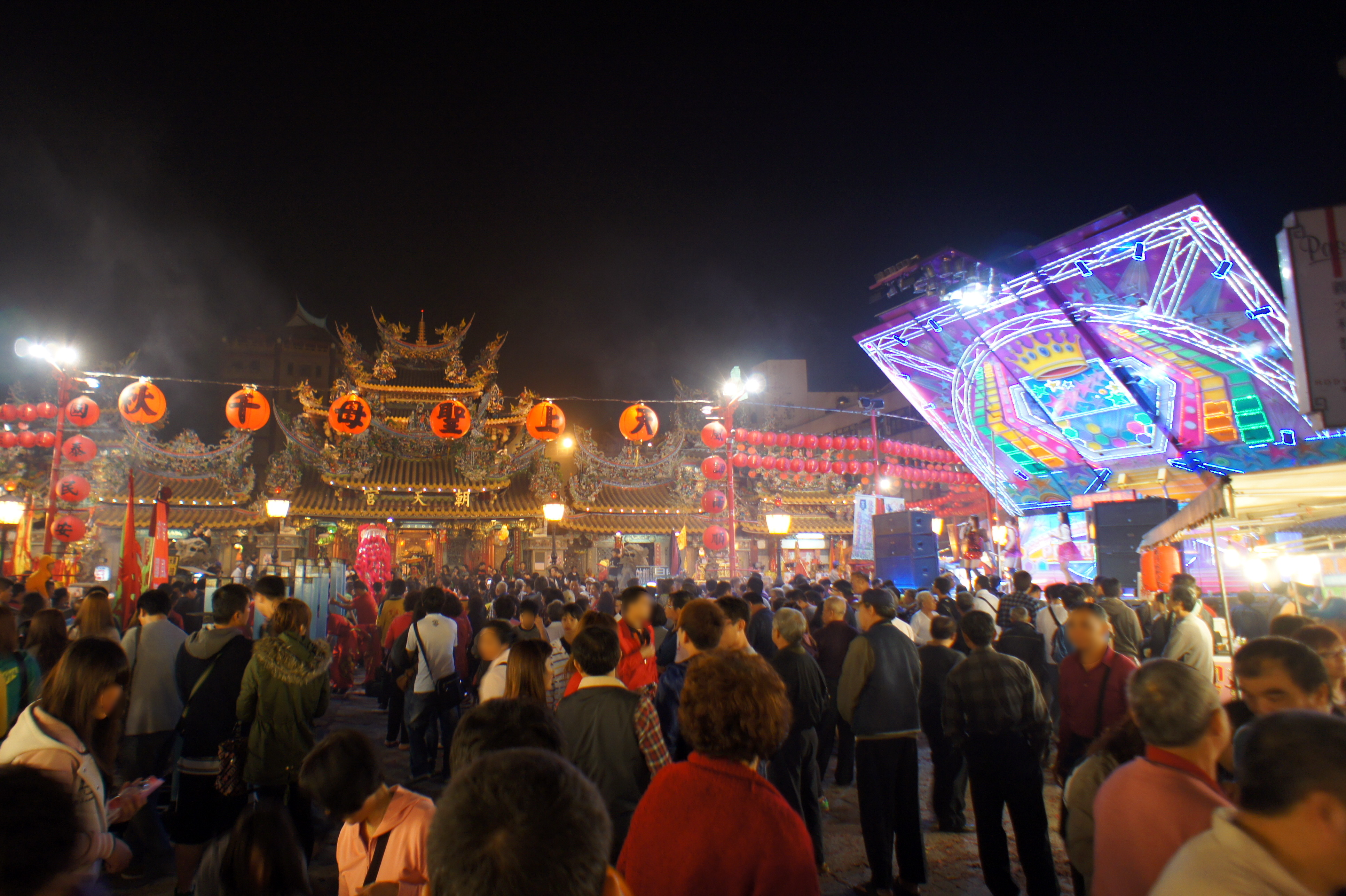 A "Electric Flower Car" near Beigang Chao-Tian Temple, Yunlin County, Taiwan.